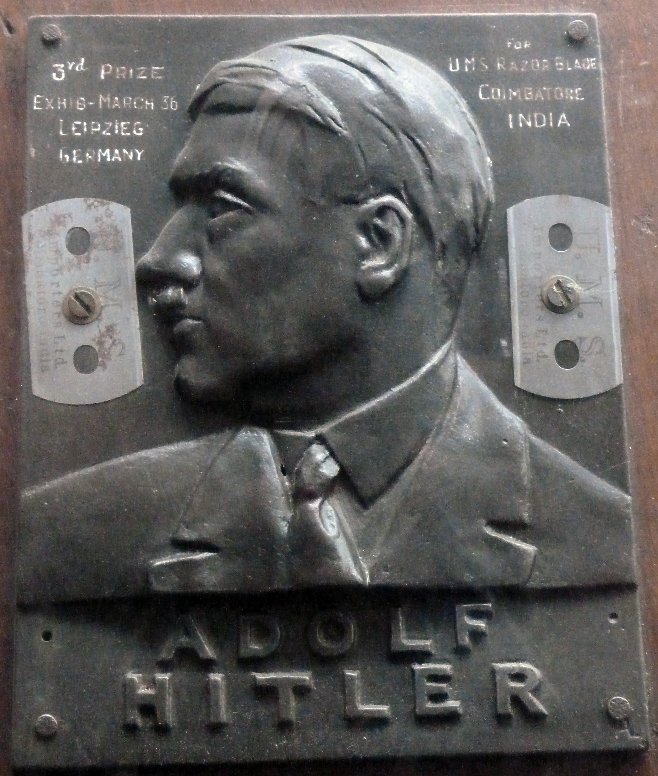 3rd Prize for UMS Razor Blade, Coimbatore, India during an exhibition in March 1936 held at Leipzieg, Germany. Taken at G.D.Naidu (Gopalswamy Doraiswamy Naidu) Museum, Coimbatore.